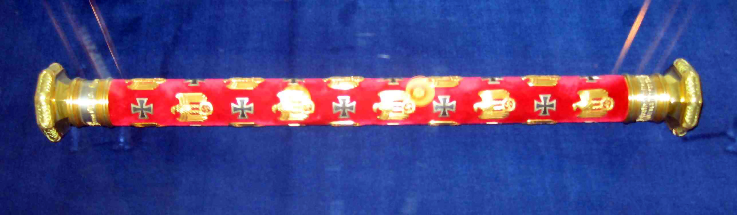 Field marshal Günther von Kluge marshal's baton.